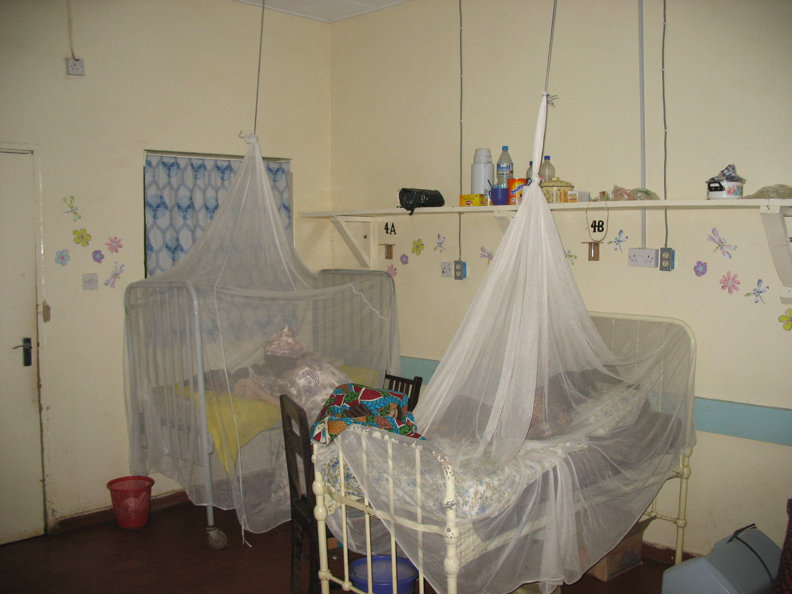 Two beds in pediatric ICU at ECWA Evangel Hospital, Jos, Nigeria. Beds are covered with mosquito nets. A mother is sitting, sleeping, under the far net.